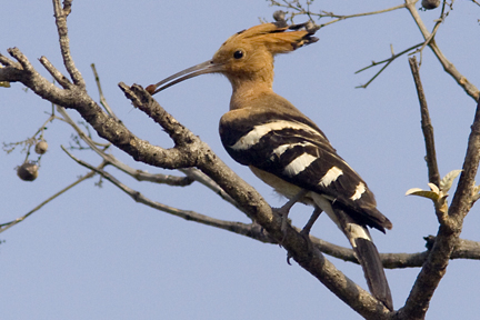 Hoopoe (Upupa epops ceylonensis).